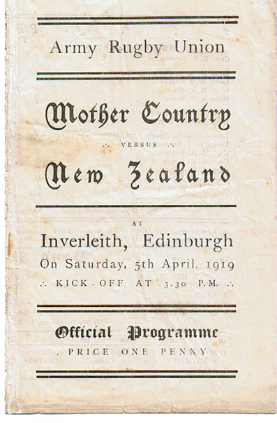 Mother Country vs New Zealand rugby union programme 1919. As part of the post World War I, Inter-Services Championship.